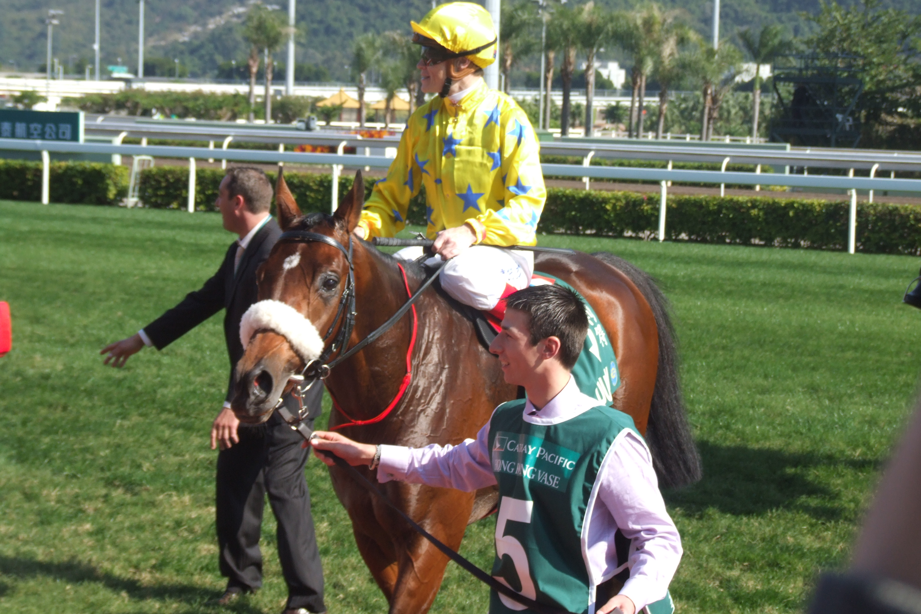 Dunaden, first horse won Melbourne Cup and Hong Kong Vase